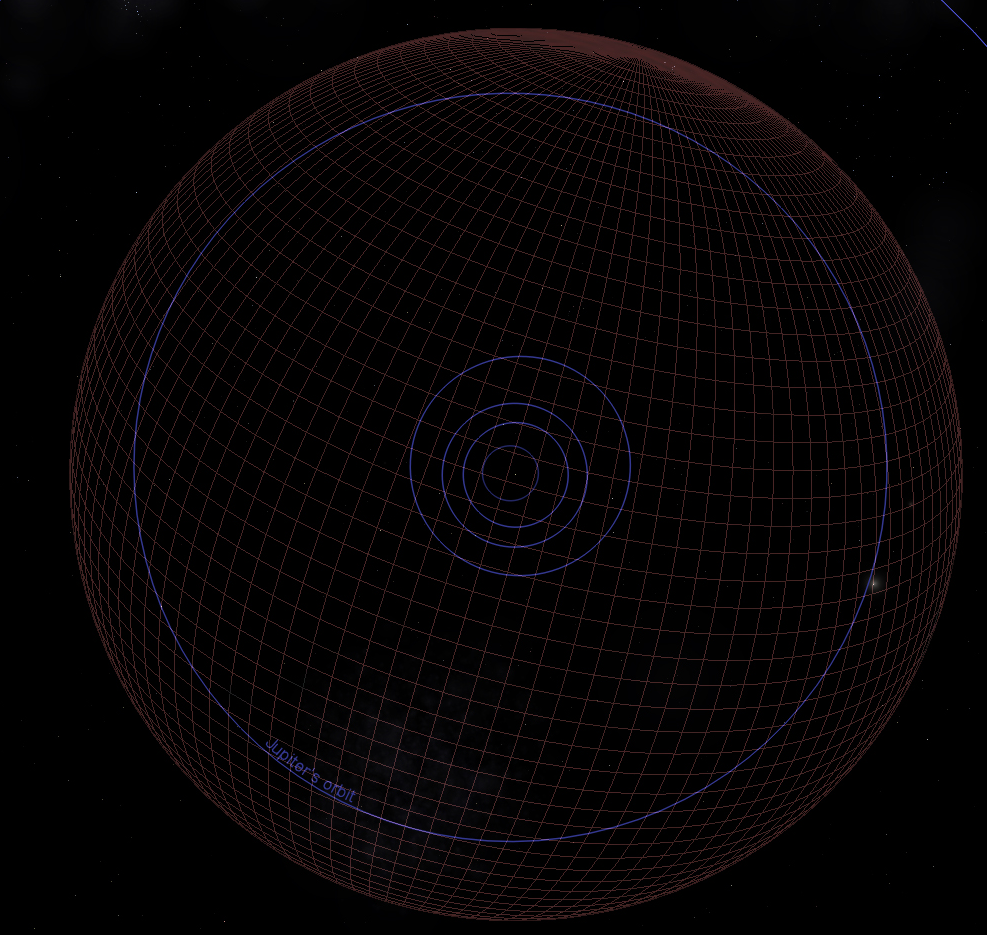 Comparasion of the aproximate size of the star VV Cephei A and Jupiter's orbit.